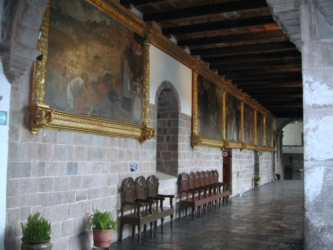 Qurikancha in Cusco